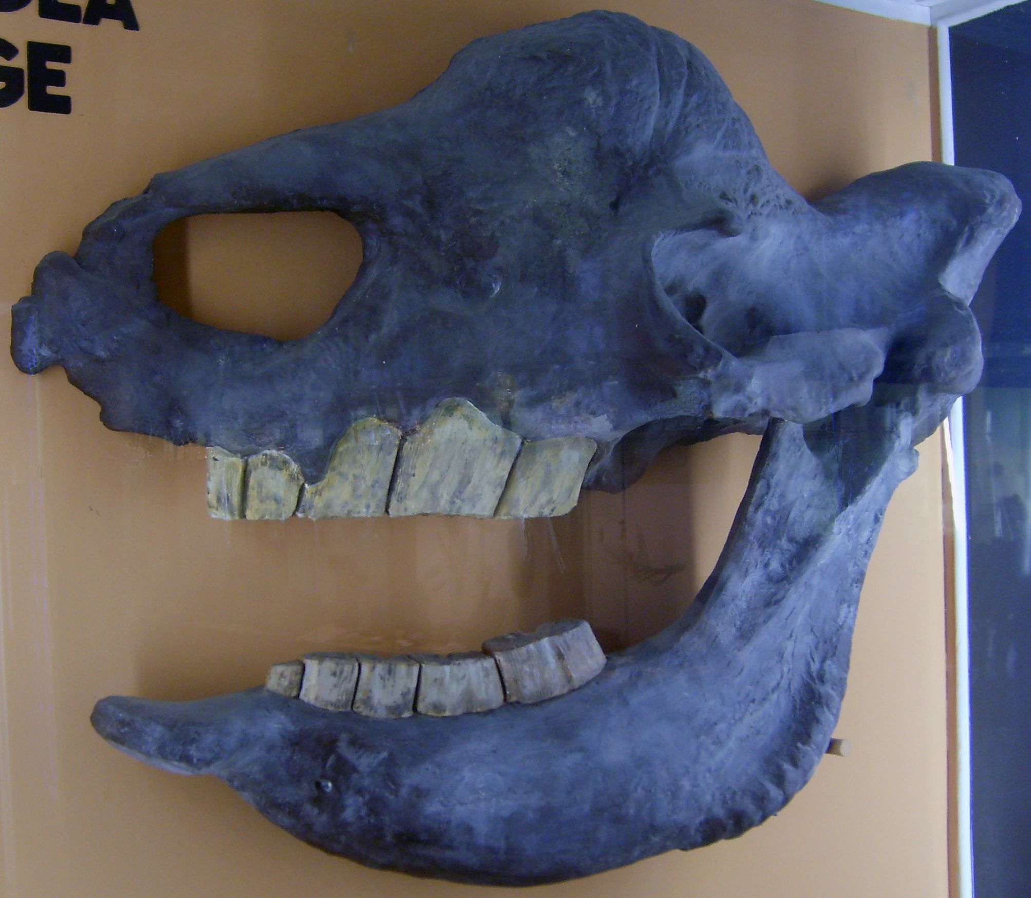 Elasmotherium sibiricum skull cast at the Museum für Naturkunde, Berlin.